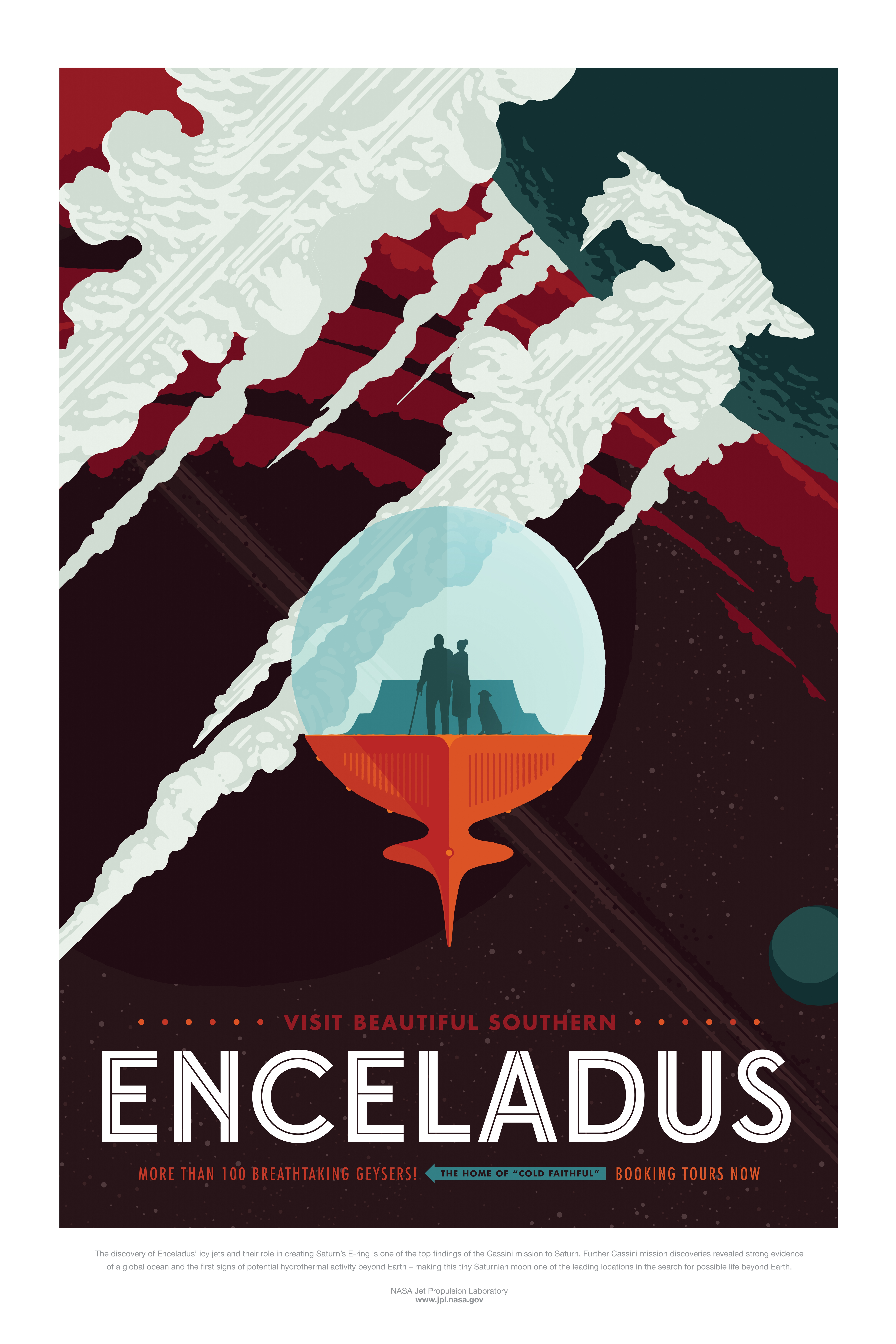 Fictional space tourism advertising poster for the Enceladus moon. Part of the JPL Visions of the Future. Inscript: «Visit Beatufiful Southern / Enceladus / More than 100 Breathtaking Gesysers! / The Home of ‹Cold Faithful› / Booking Tours Now».